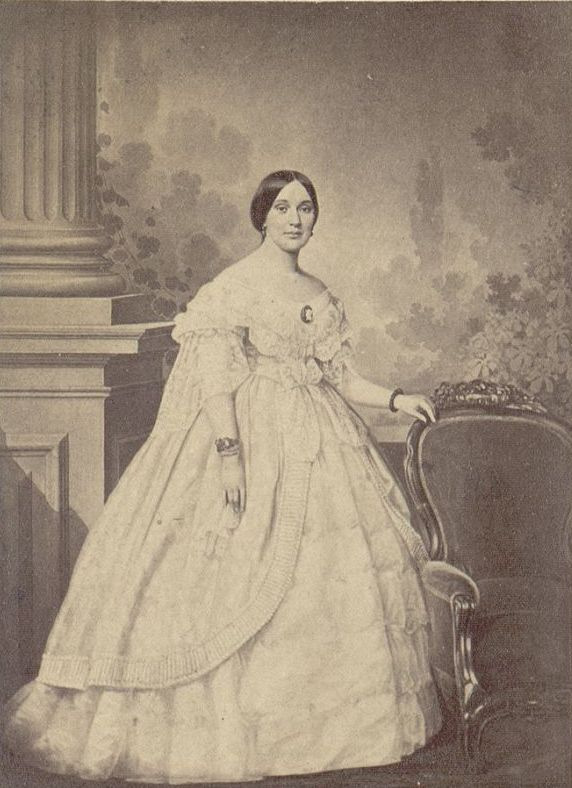 Mrs. Jefferson Davis, full-length studio portrait, standing, facing slightly right with left hand resting on the back of a chair. Provenance: Gift from Gist Blair; 1936